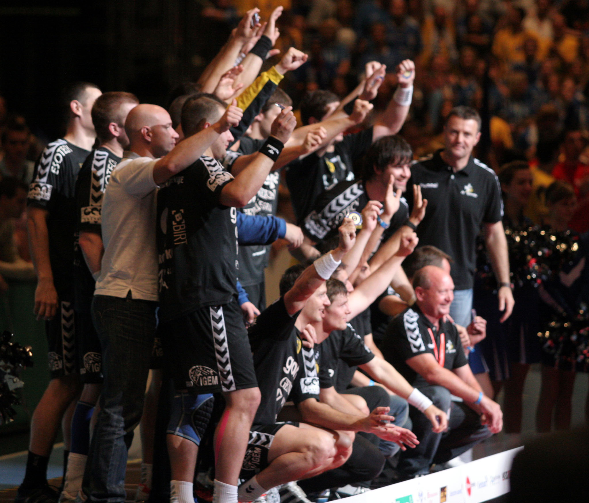 The handballteam of RK Velenje, after the final EHF Cup game on June 1st 2009, VfL Gummersbach vers. RK Velenje in Cologne´s Lanxess arena.